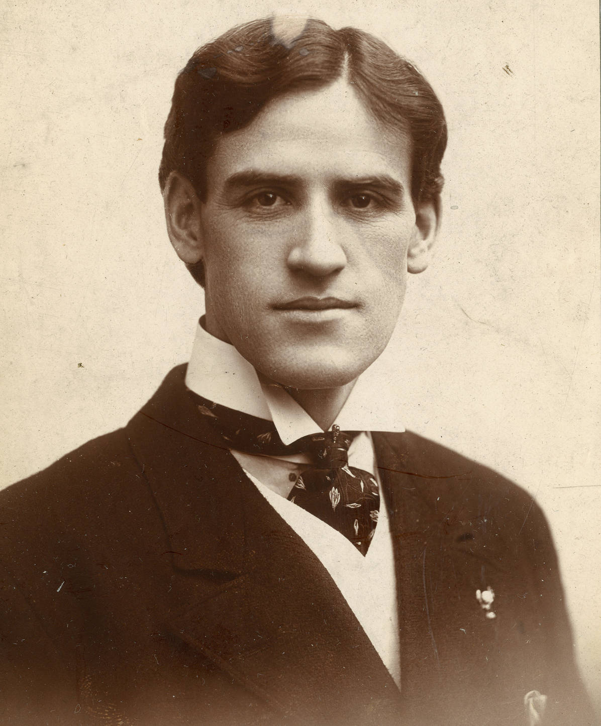 Allen Doone, stage actor Subjects: actors